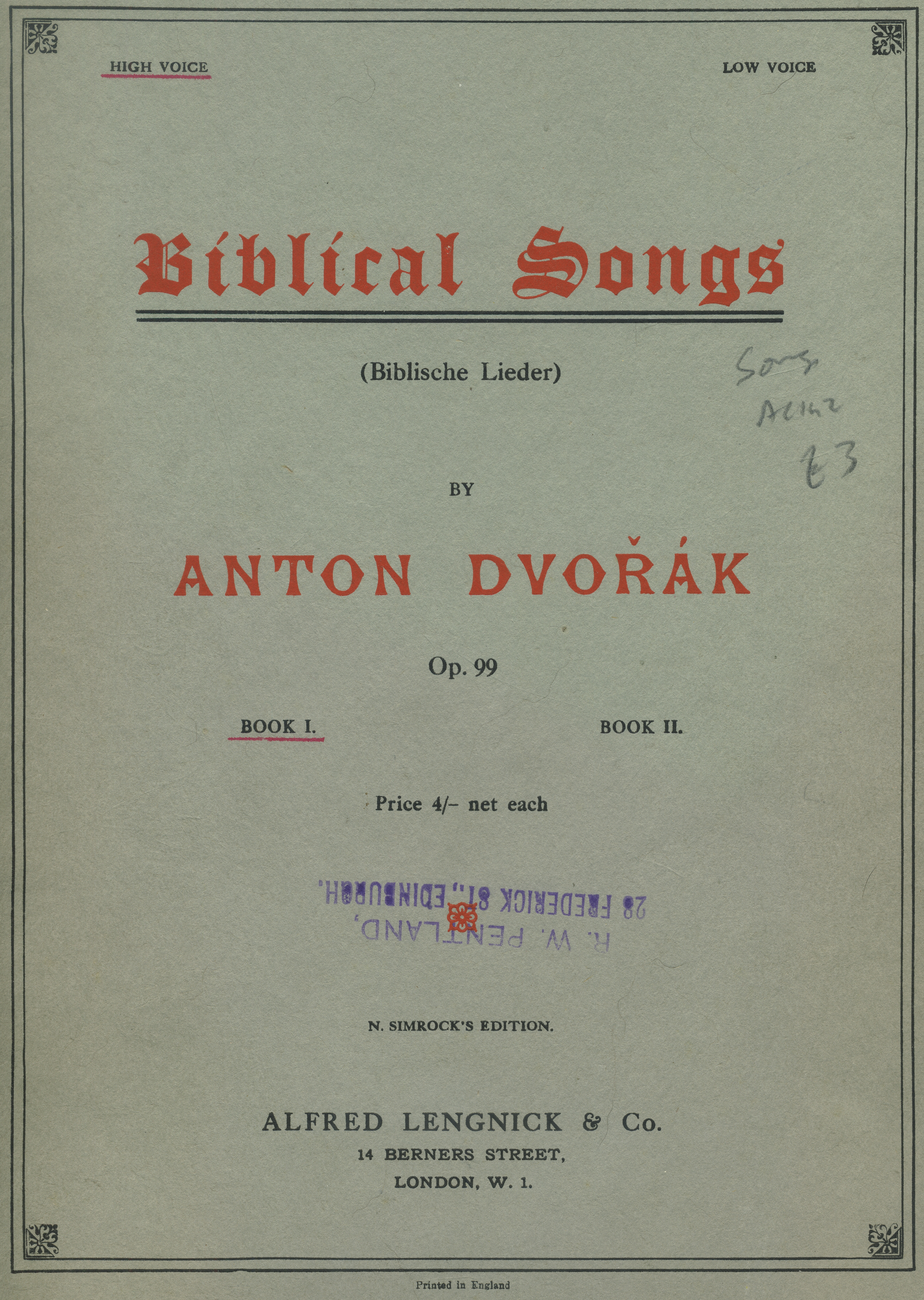 Antonín Dvořák's Biblícké Písně (Biblical Songs) Op. 99 (1894). Book 1 containing Songs 1-5. While Dvorak later orchestrated the work, this the complete original piano-and-voice version. While the massacre of the original music to fit the German and English is appalling, it does contain the original Czech, and the original music for the Czech. The German and English should probably be considered only as a translation. This is the first five songs (out of ten), the other five are printed in a second volume I have not yet tracked down. I haven't been able to find Book 2, unfortunately.